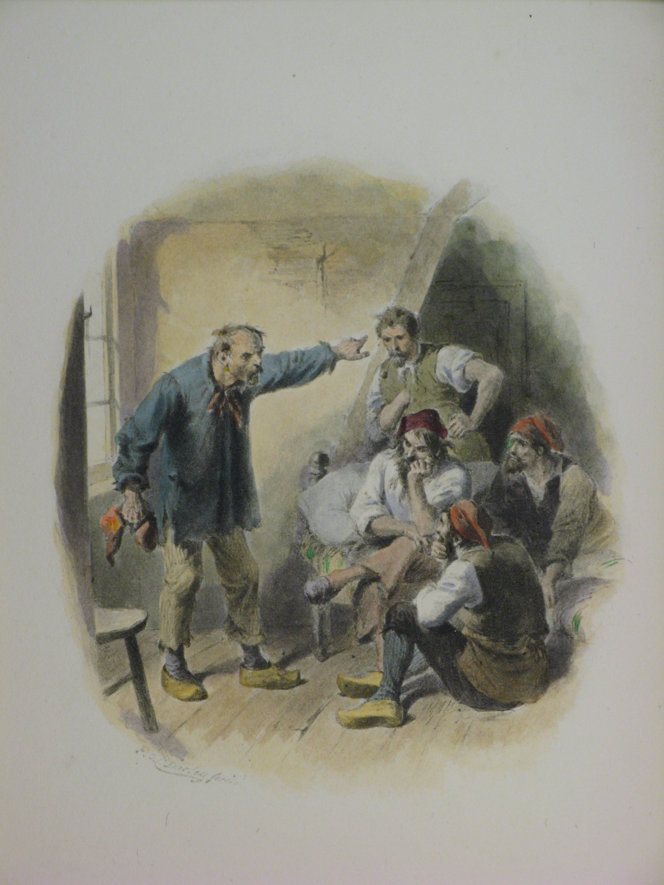 A photograph of the colorized engraving in The Writings of Charles Dickens volume 20, A Tale of Two Cities, titled "The Four Jacques".